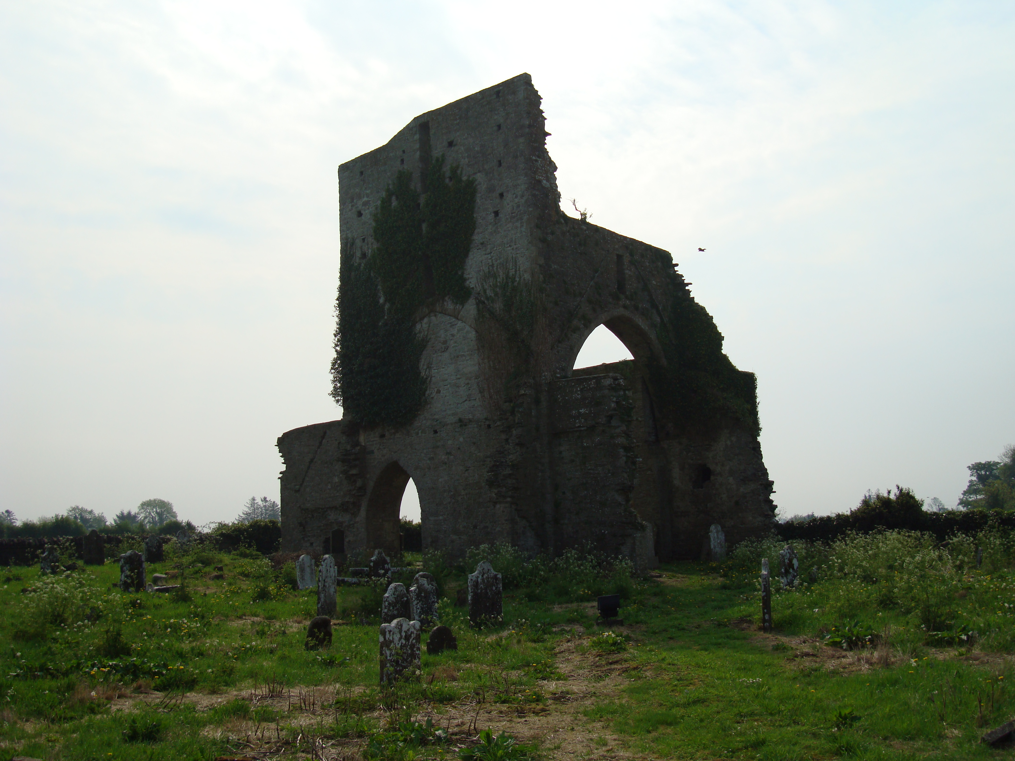 Photograph of Abbeylara Abbey, Co. Longford, Republic of Ireland